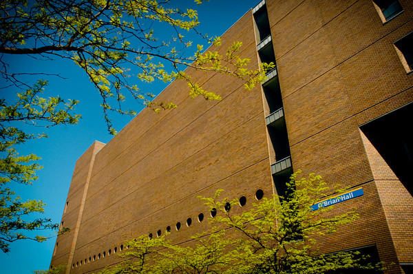 School of Law